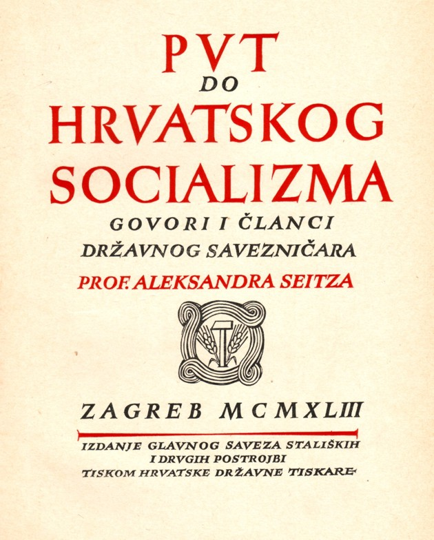 cover of a book "Path to Croatian Socialism", 1944